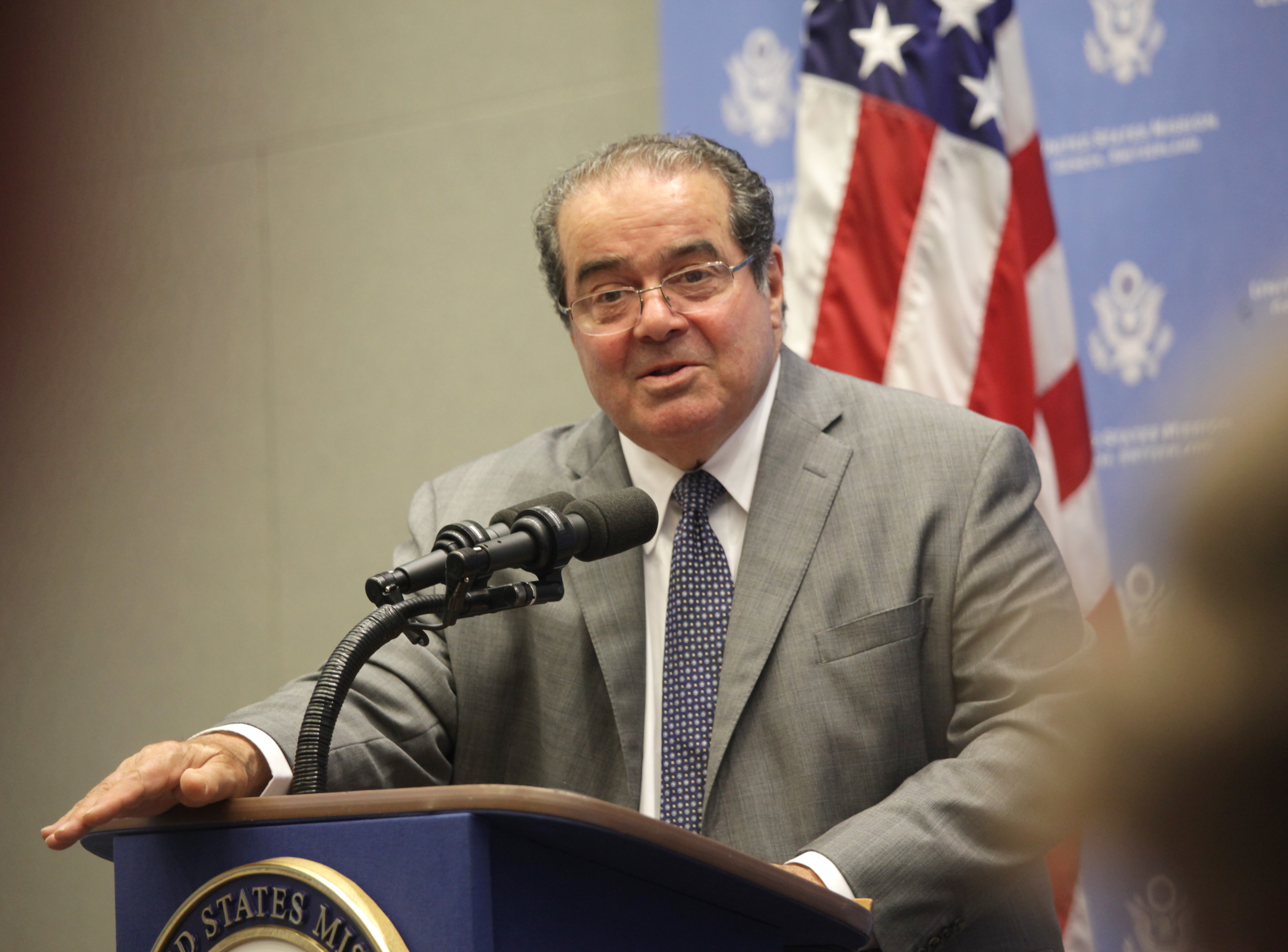 U.S. Supreme Court Justice Antonin Scalia visited the U.S. Mission in Geneva on July 13 and participated in an hour-long discussion and exchange with U.S. Mission Staff. In his remarks, Justice Scalia reflected on the uniqueness of the separation of powers between the executive and legislative branches in the United States, and the critical role played by an independent judiciary. U.S. Mission Photo: Eric Bridiers